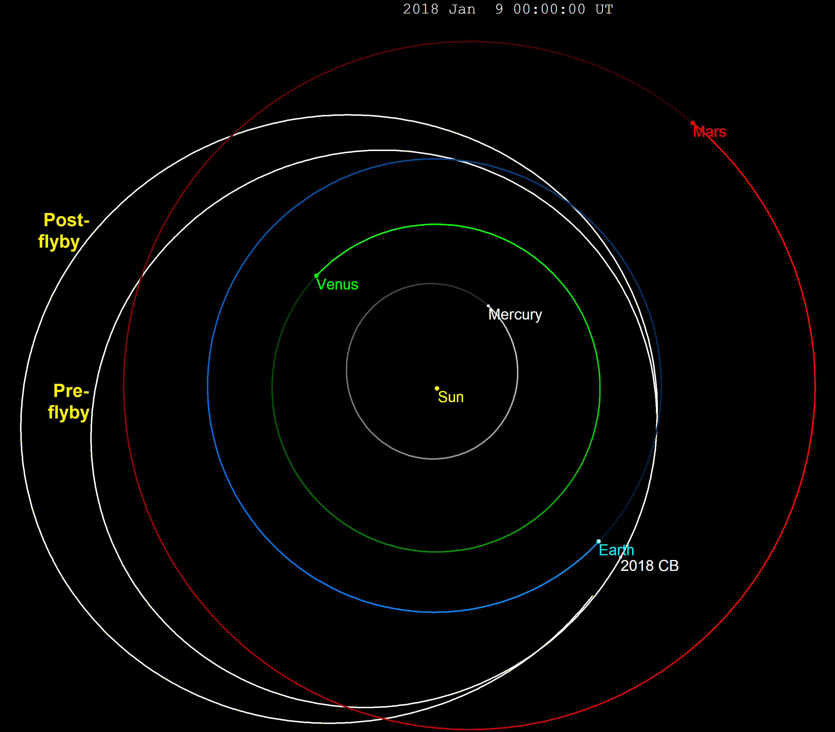 en:2018_CB orbit with positions on 1/1/18 before 2/12/18 flyby of earth